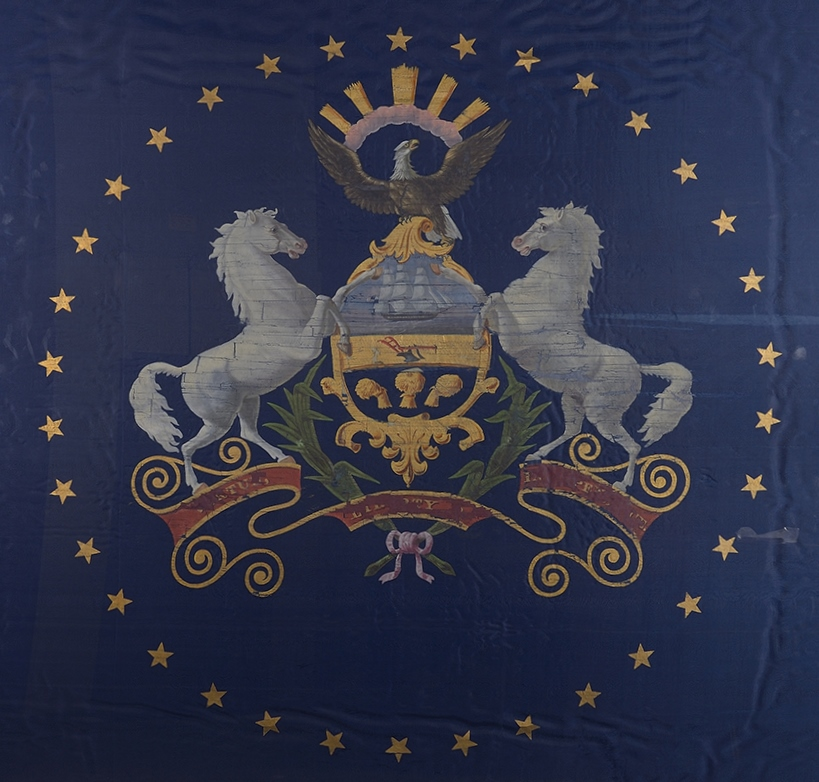 State Flag of Pennsylvania, circa 1863; source: State Museum of Pennsylvania, crop of public domain image to highlight state coat of arms. According to Greene County, Pennsylvania administrators, the coat of arms shown here was the second prepared for use by the state and its residents. (The first, a coat of arms employed by the Penn Family, was Provincial Pennsylvania's coat of arms.) This second coat of arms was designed in 1778 by Philadelphia resident Caleb Lownes. "Heraldic in design, it consisted of: a shield, which displayed the emblems of the State Seal - the ship, plough, and sheaves of wheat; an eagle for the crest; two black horses as supporters; and the motto 'Virtue, Liberty and Independence.' An olive branch and cornstalk were crossed below the shield. Behind each horse was a stalk of corn but these were omitted after 1805. Numerous modifications were made to this coat of arms between 1778 and 1873, chiefly in the position and color of the supporting horses. In 1874, the legislature noted these variations and lack of uniformity, and appointed a commission to establish an official coat of arms for the Commonwealth. In 1875, the commission reported that it had adopted, almost unchanged, the coat of arms originally designed by Caleb Lownes 96 years earlier.”[1] The image shown here is a close up of the coat of arms taken from a Pennsylvania state flag carried into battle during the American Civil War, c. 1863.